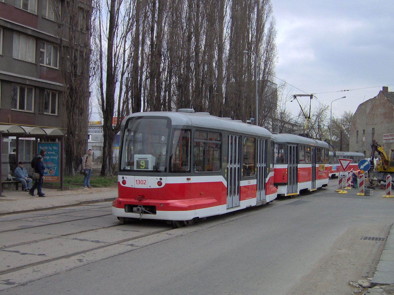 Trailer VV60LF in Brno